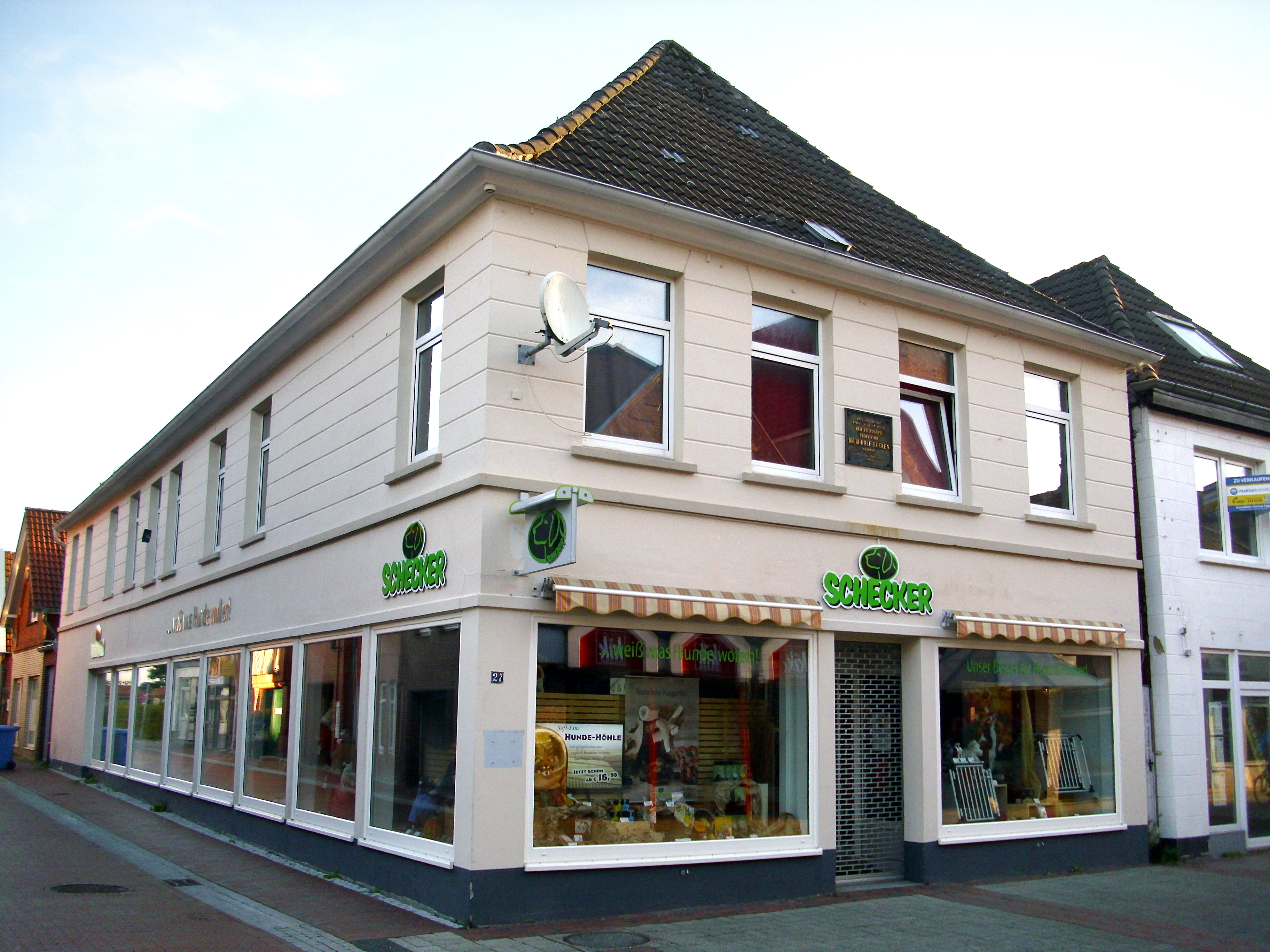 In this house in Aurich, Osterstraße 27, the German philosopher Rudolf Eucken was born